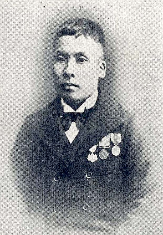 石坂 荘作